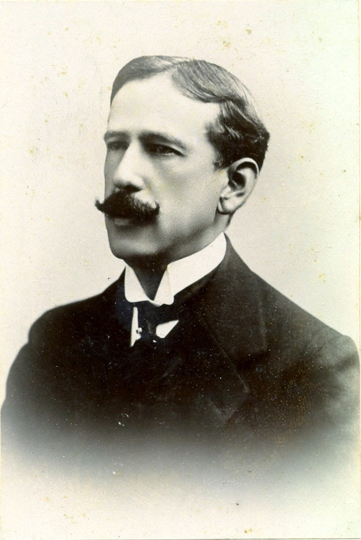 Francisco José Urrutia Olano, Minister of Foreign Affairs of Colombia, and diplomat. License on Flickr: CC-BY-2.0 Flickr tags: Fotografía histórica